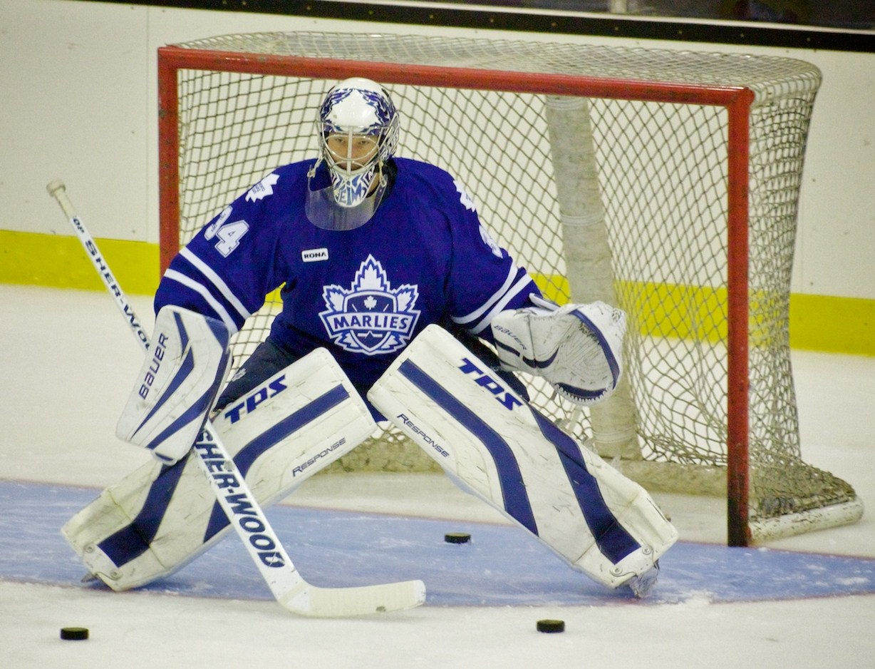 Toronto Marlies goalie James Reimer during warmup for the Gardiner Cup final.